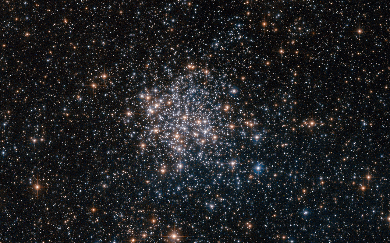 This NASA/ESA Hubble Space Telescope image shows the globular cluster NGC 1854, a gathering of white and blue stars in the southern constellation of Dorado (The Dolphinfish). NGC 1854 is located about 135 000 light-years away, in the Large Magellanic Cloud (LMC), one of our closest cosmic neighbours and a satellite galaxy of the Milky Way. The LMC is a hotbed of vigorous star formation. Rich in interstellar gas and dust, the galaxy is home to approximately 60 globular clusters and 700 open clusters. These clusters are frequently the subject of astronomical research, as the Large Magellanic Cloud and its little sister, the Small Magellanic Cloud, are the only systems known to contain clusters at all stages of evolution. Hubble is often used to study these clusters as its extremely high-resolution cameras can resolve individual stars, even at the clusters’ crowded cores, revealing their mass, size and degree of evolution.